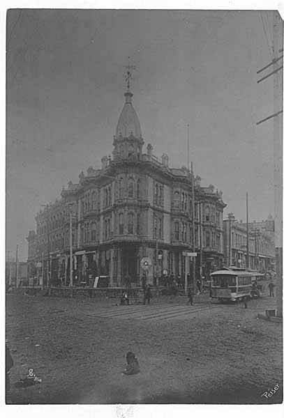 Built 1882-1883, burned down during the Great Fire of 1889 . Caption on image: 8. Peiser Peiser 8a Subjects (LCTGM): Street railroads--Washington (State)--Seattle